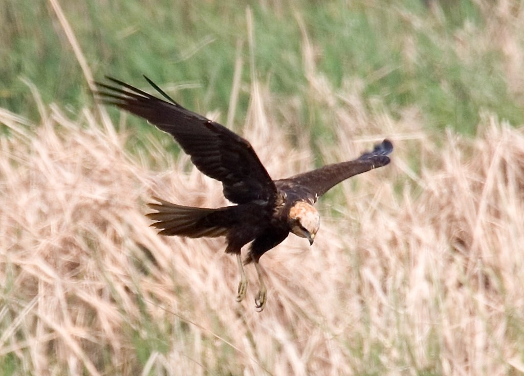 Western Marsh Harrier (Circus aeruginosus)